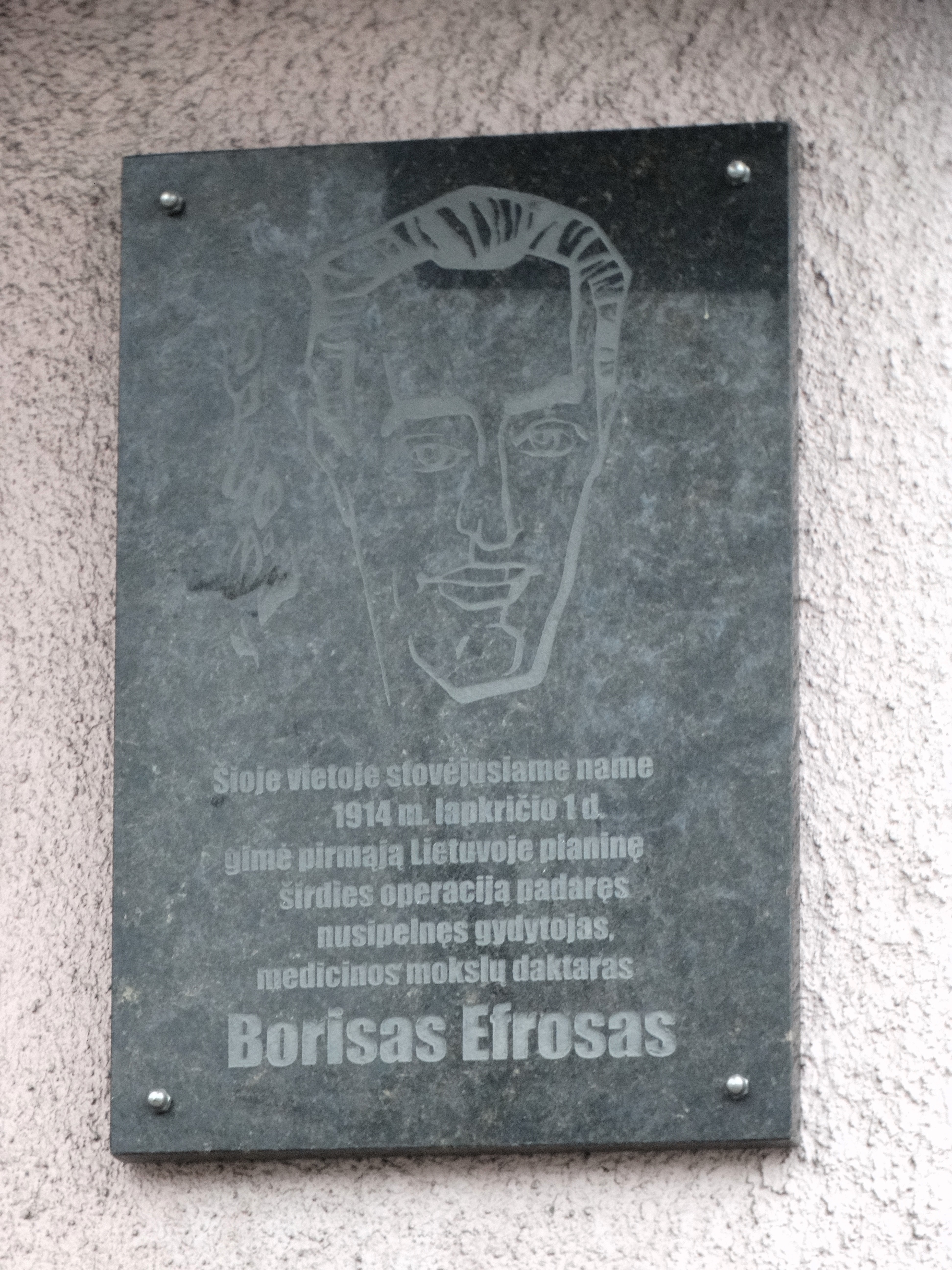 Borisas Efrosas, memorial plaque in Plungė, Lithuania